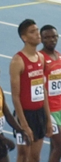 Younés Essalhi at the 2012 World Junior Championships in Athletics in Barcelona